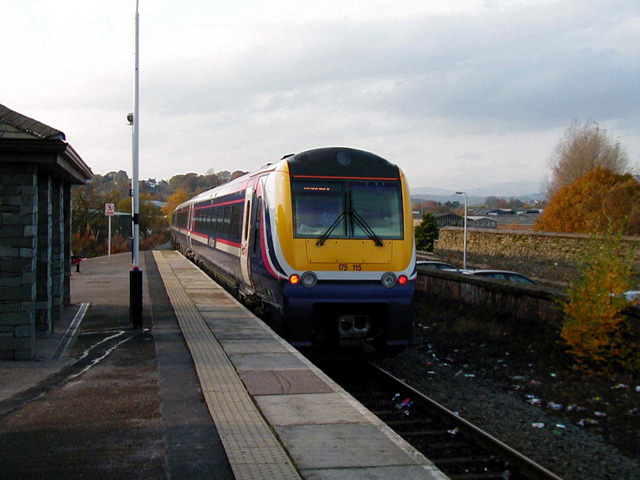 First North Western 175115 departs Kendal Station.